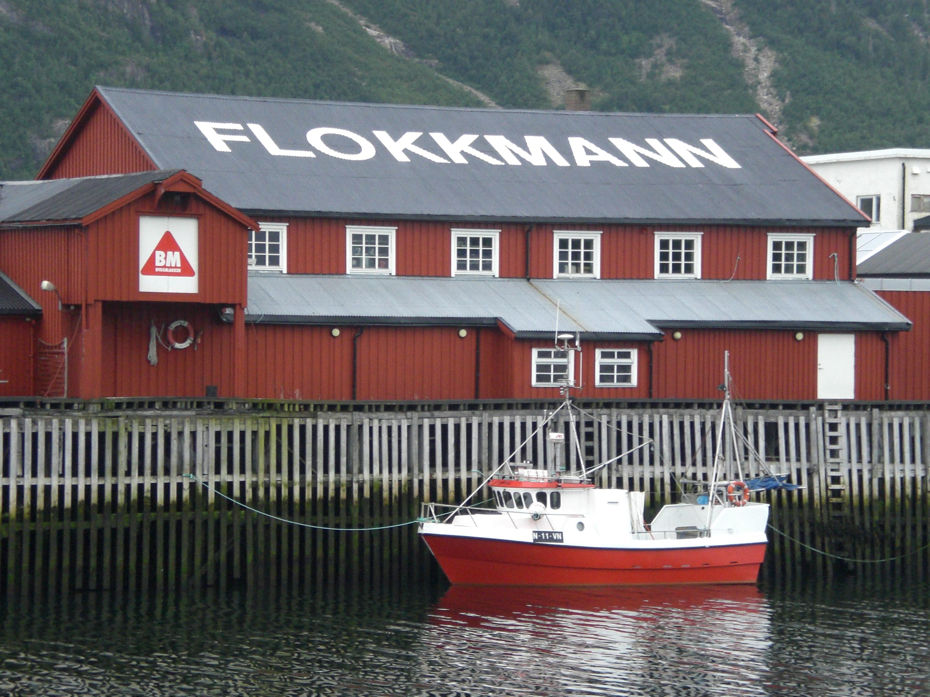 Flokkmann-brygga (building), Nervollan in Mosjøen, Norway.